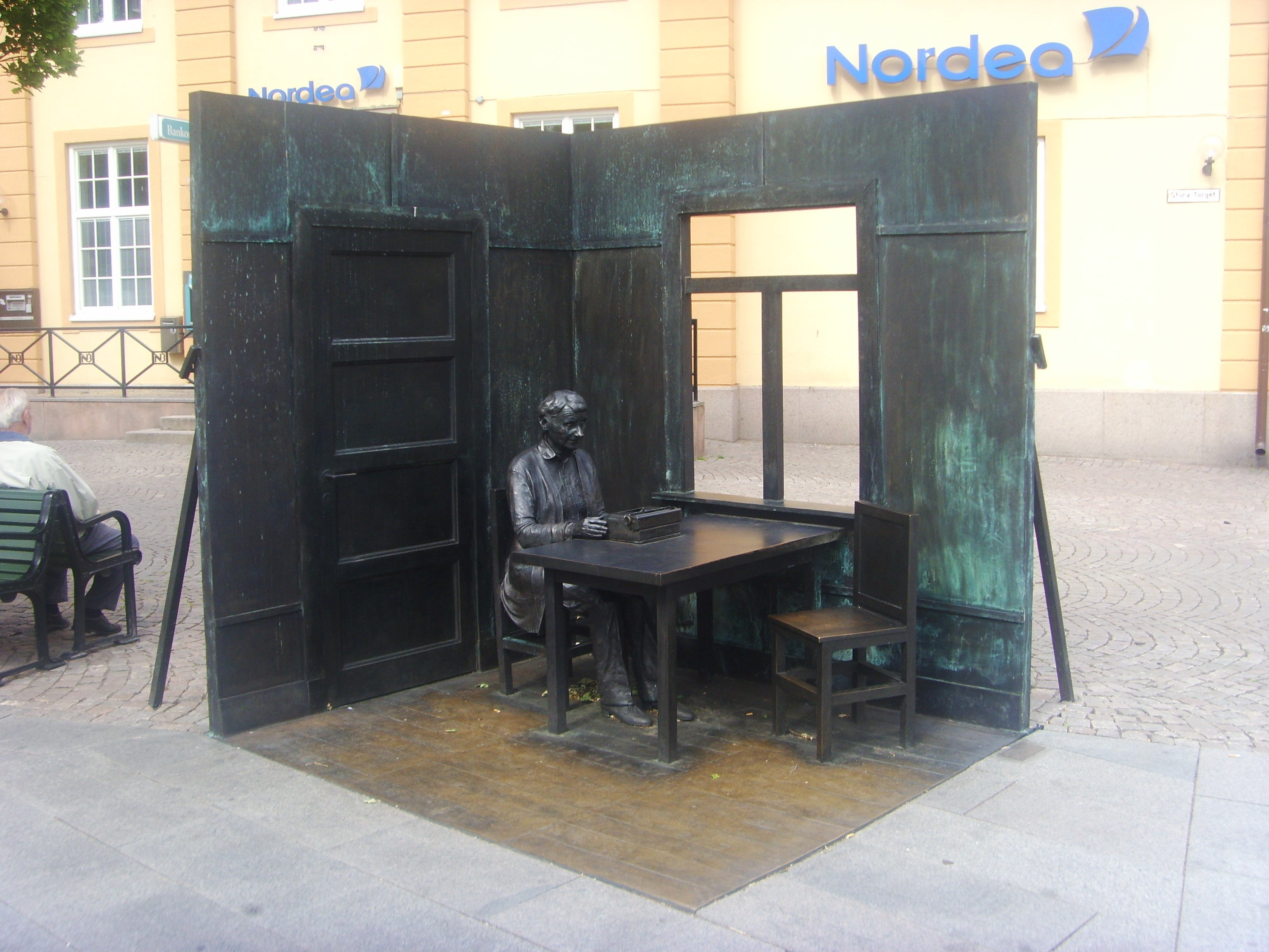 Vimmerby